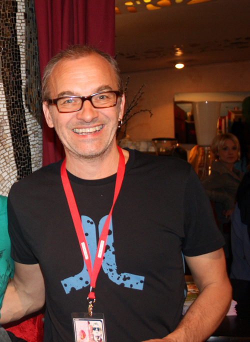 Clarence Öfwerman, Swedish musician and producer, in Cologne 2009